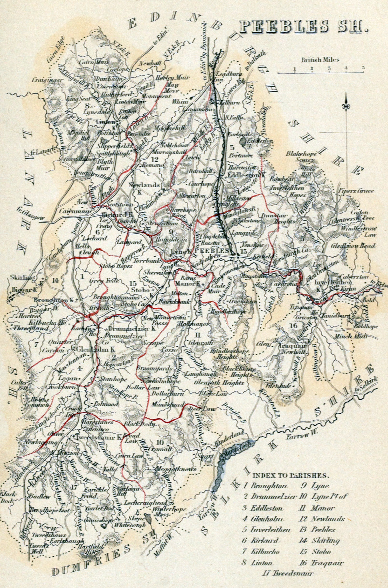 PEEBLESSHIRE Civil Parish map. The Imperial gazetteer of Scotland. Vol.II. by Rev. John Marius Wilson.